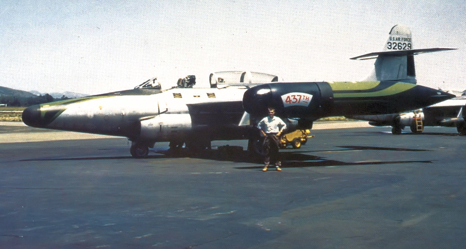 437th Fighter-Interceptor Squadron F-89D 53-2629